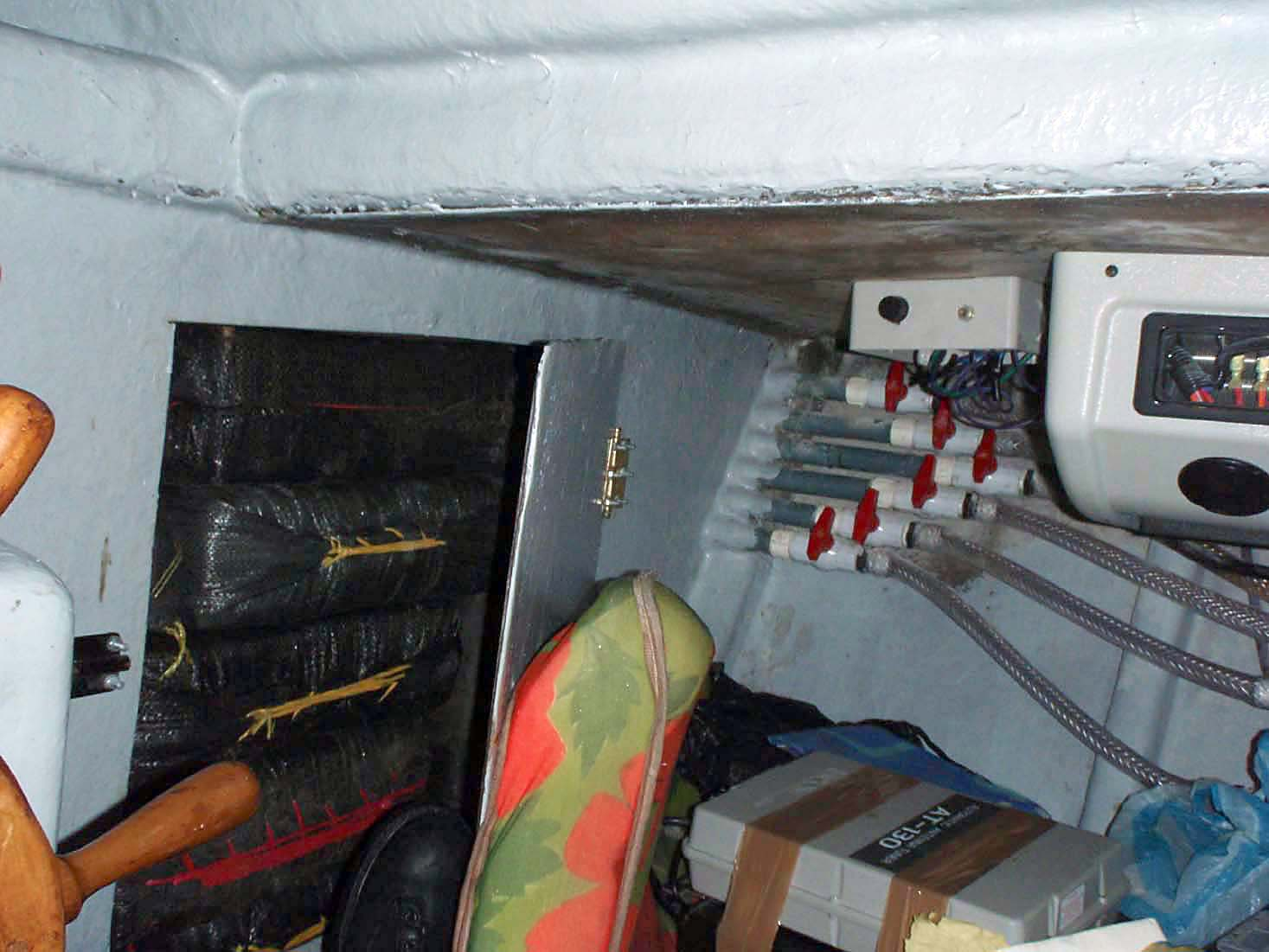 PACIFIC OCEAN (Sept. 13, 2008) In this photo released by the U.S. Coast Guard, packages of cocaine are stored in a compartment of a self-propelled, semi-submersible vessel interdicted at sea Saturday, Sept. 13, 2008, by the guided-missile frigate USS McInerney (FFG 8). Members of U.S. Coast Guard law enforcement detachment 404, embarked aboard the McInerney, seized the estimated $187 million worth of cocaine during a night raid about 350 miles west of Guatemala. The seized vessel has the capability to travel from Ecuador to San Diego, Calif. (U.S. Navy photo by Petty Officer 1st Class Nico Figueroa/Released)